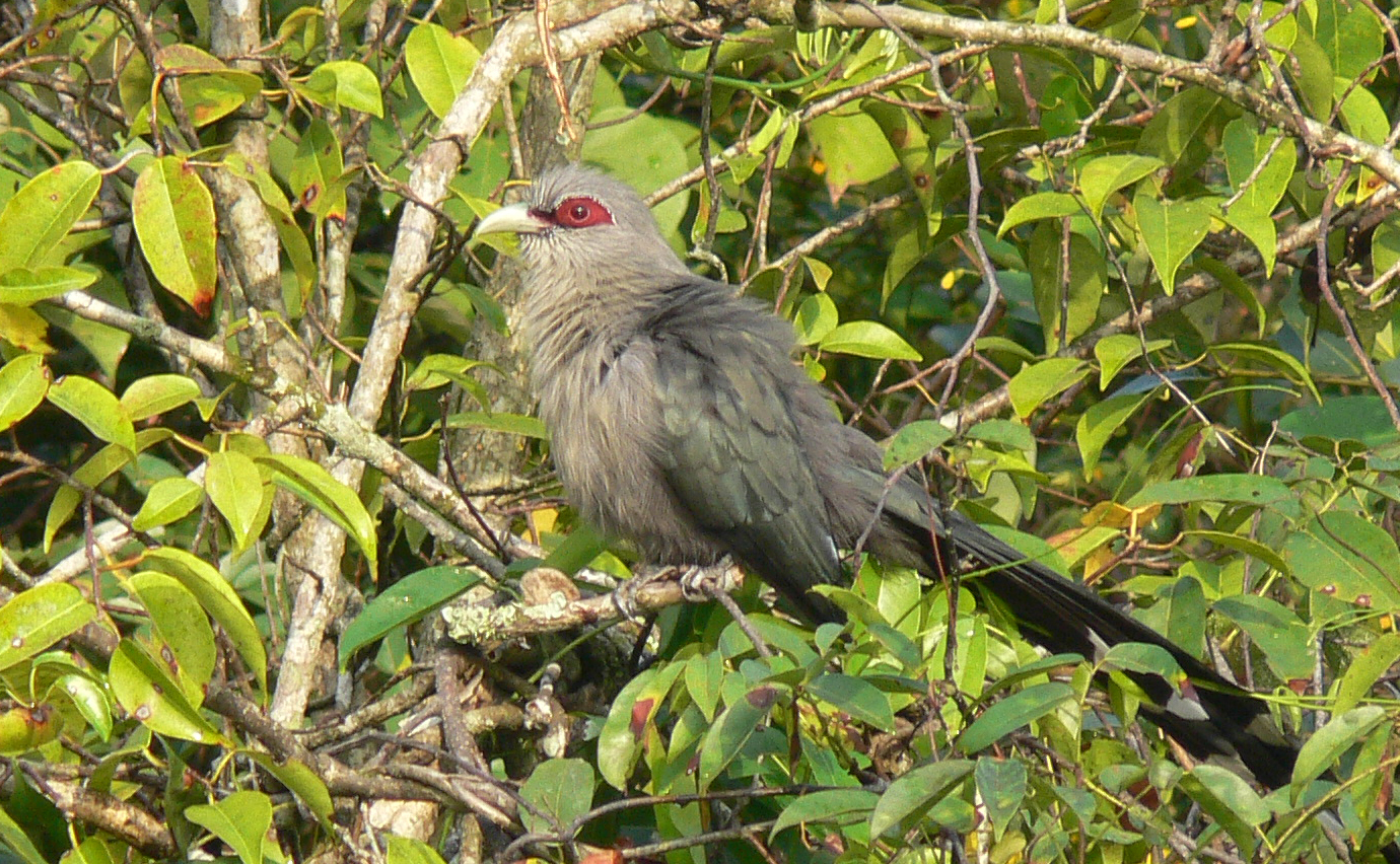 Taken in the Sundarban, Bangladesh. By M Abdullah Abu Diyan.